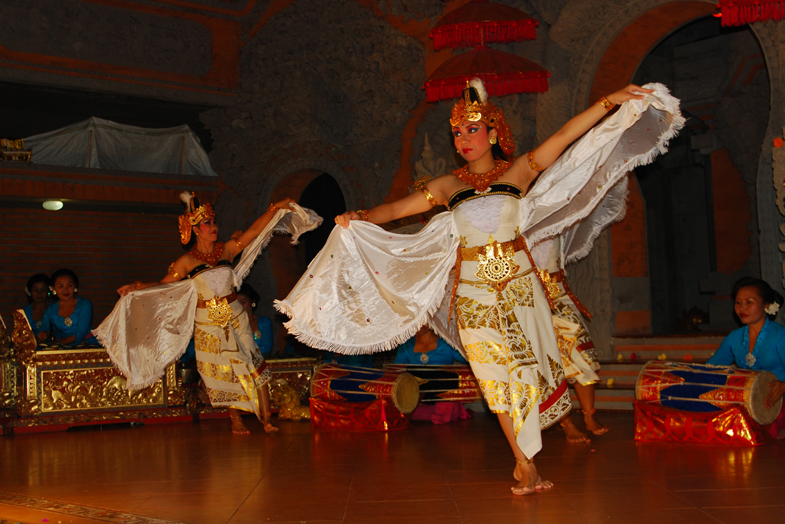 A mix of various traditional dances and costumes